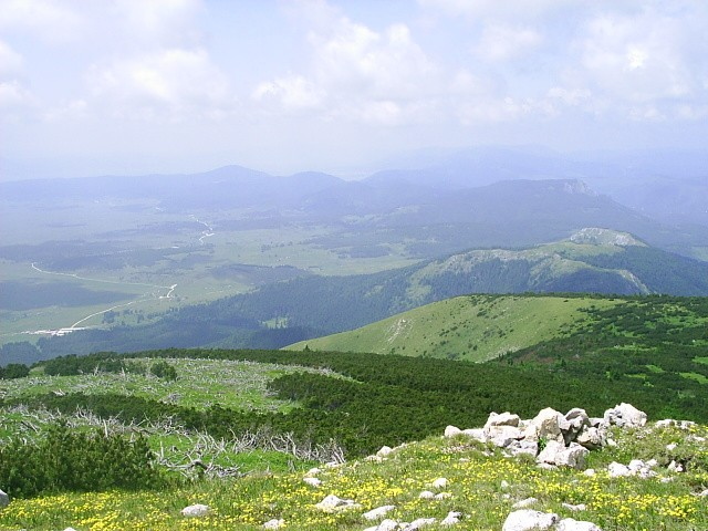 Raduša mountains, BiH